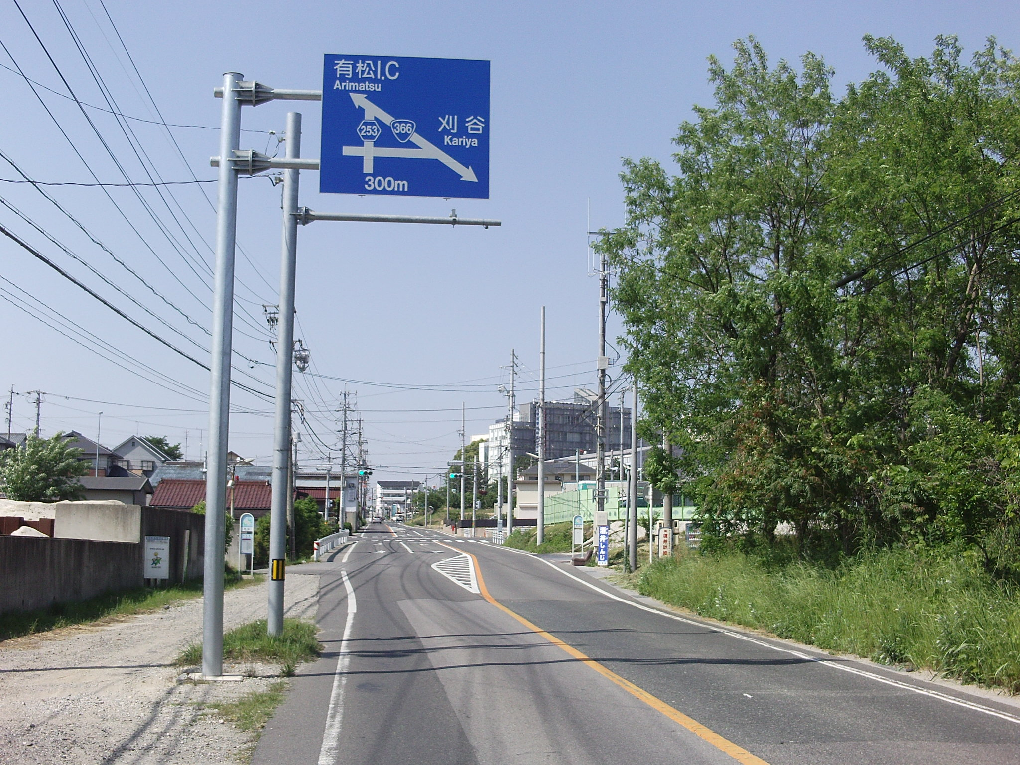 Aichi prefectural road No.253 in Moriokamachi, Obu, Aichi.